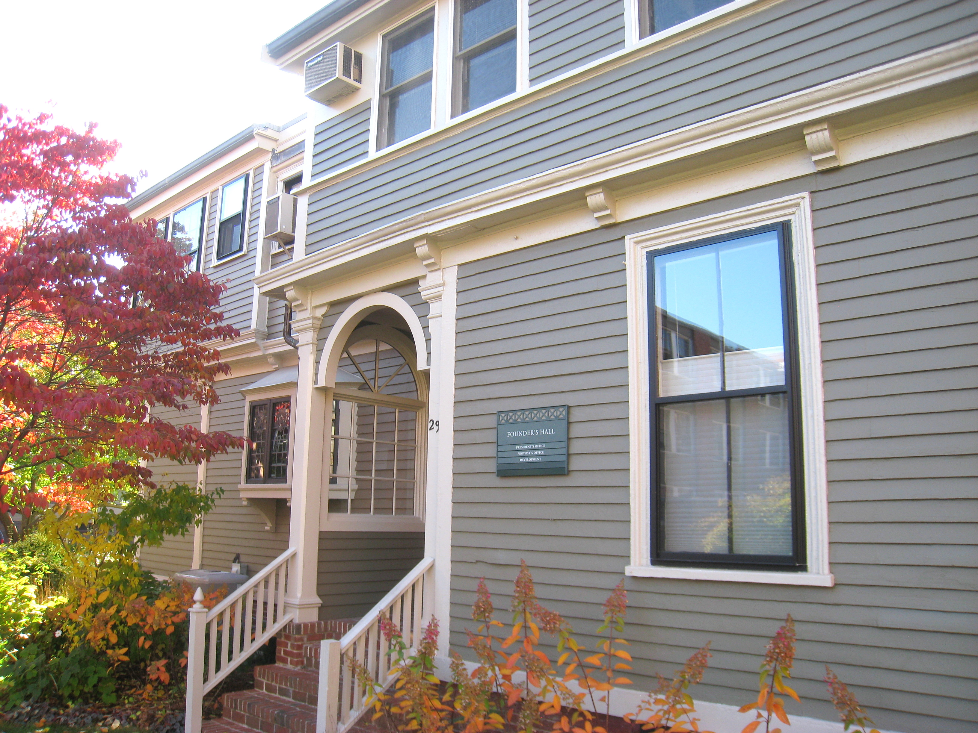 Founder's Hall, Lesley University, Cambridge, Massachusetts, USA.